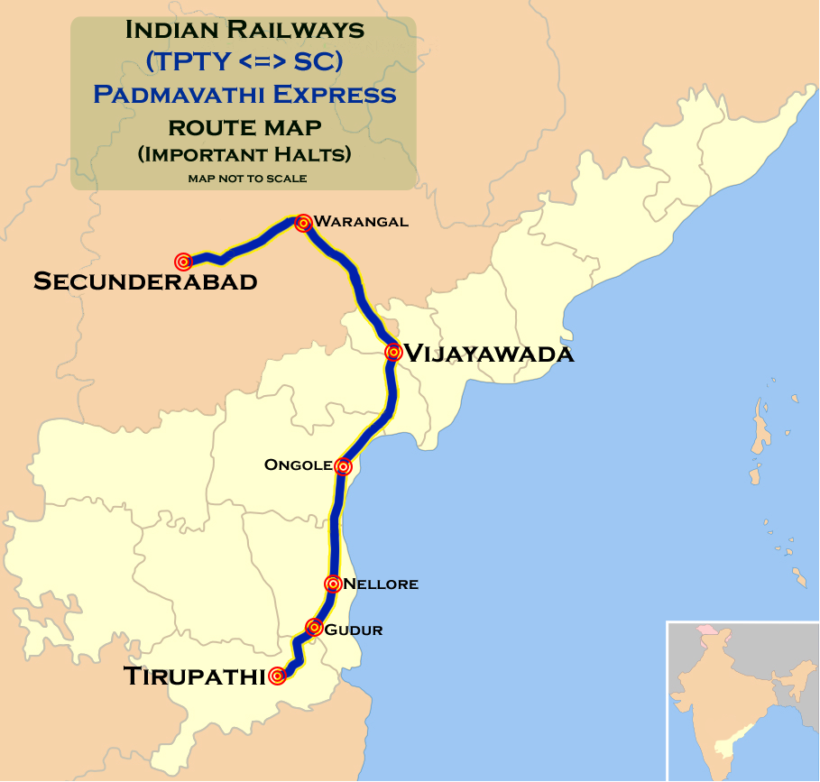 Padmavati Express (Tirupathi - Secunderabad) Route map